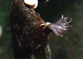 Ornithorhynchus anatinus Copyright (c) 1995 E.Lonnon.